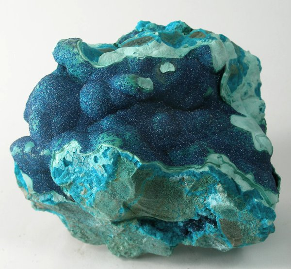 Cornetite, Chrysocolla Locality: L'Etoile du Congo Mine (Star of the Congo Mine; Kalukuluku Mine), Lubumbashi (Elizabethville), Southern area, Katanga Copper Crescent, Katanga (Shaba), Democratic Republic of Congo (Zaïre) (Locality at ) Size: 9.5 x 7.2 x 4.8 cm. Cornetite is a rare, hydrated copper phosphate. This very fine, vuggy specimen in chrysocolla matrix is very richly lined with scintillating, vivid teal-blue cornetite microcrystals. A striking and beautiful combination specimen, as the variable colors of chrysocolla are a fine compliment to the teal-blue cornetite. This extra fine piece, from a new find is from the Type Locality - the Star of the Congo Mine.